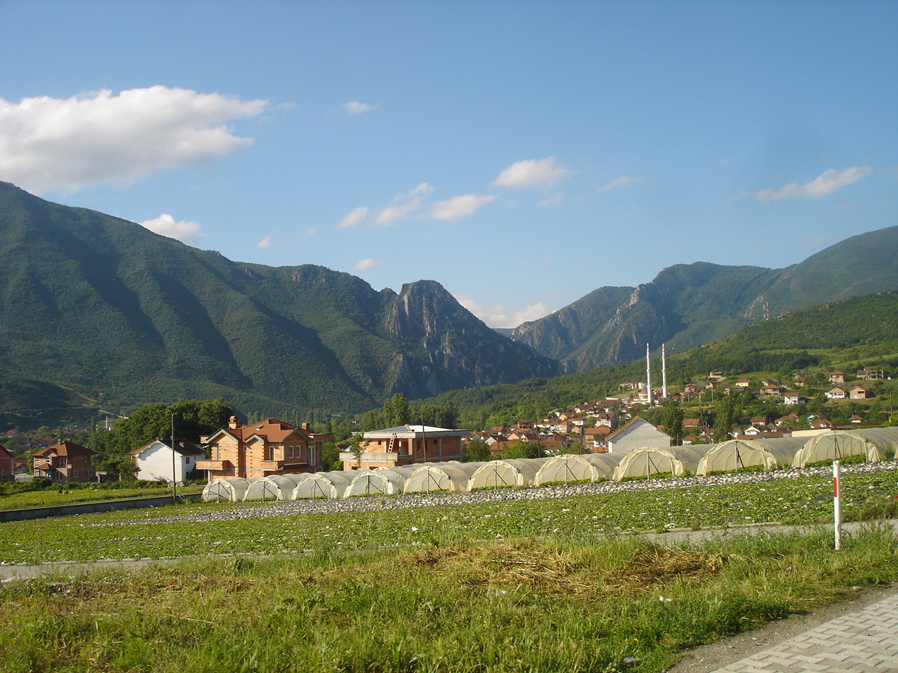 village of Glumovo, near Skopje, Macedonia